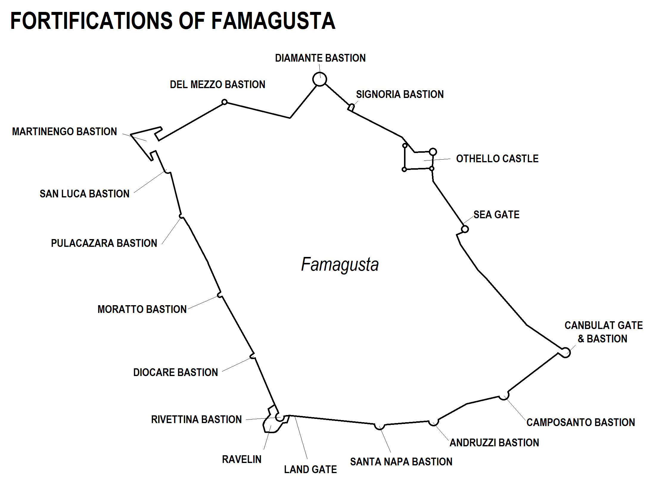 Map of the fortifications of Famagusta in Cyprus (de facto part of Northern Cyprus)